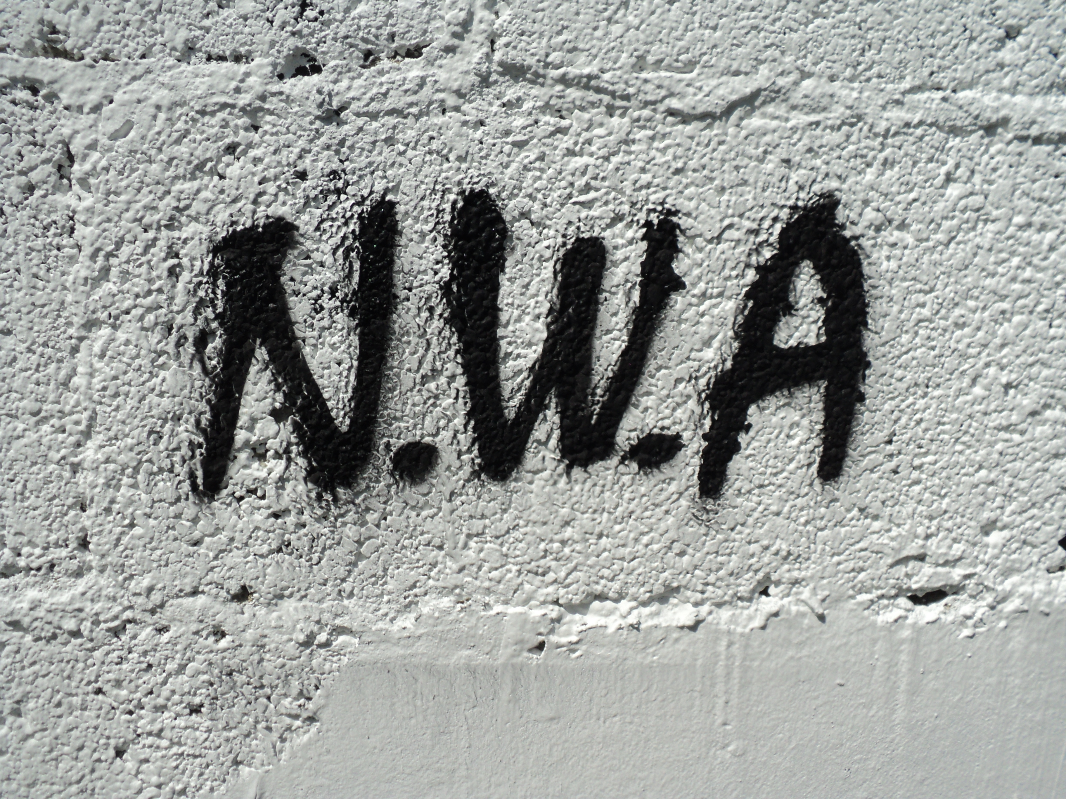 Graffiti on wall: N.W.A. logo